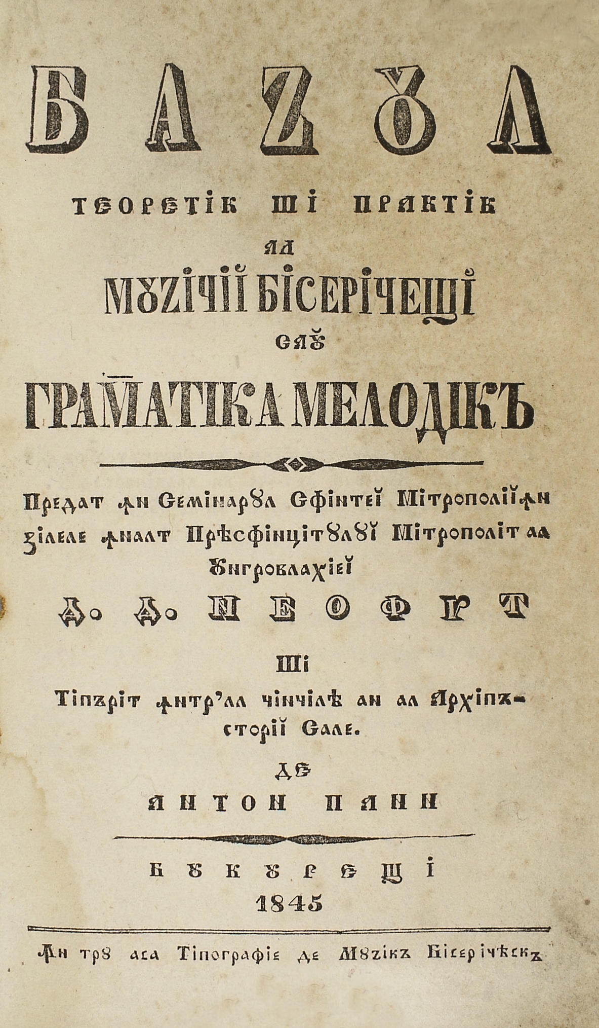 "Bazul teoretic și practic al muzicii bisericești sau Gramatica melodică" (The Theoretical and Practical Basis of Church music or the Melodic Grammar), title page. Written and printed in 1845 in Bucharest by Anton Pann, in Romanian with Cyrillic characters. It is the first comprehensive textbook of Byzantine music in Romanian. TranscriptionTransliterationБAZꙊΛ ТEOРEТİК Шİ ПРAКТİК AΛ МꙊZİЧİĬ БİСEРİЧEЩĬ СAꙊ̆ ГРAМAТІКA МEΛOДІКЪ Прᴇдaт ꙟɴ СᴇмiɴaрȢʌ Сфiɴтᴇĭ Мiтрoпoʌiĭ ꙟɴ ӡiʌᴇʌᴇ ꙟɴaʌт ПрѣсфiɴцiтȢʌȢĭ Мiтрoпoʌiт aʌ Ꙋɴгрoвʌaꭓiᴇĭ Д. Д. NEOФİТ Шi Тiпърiт ꙟɴтр'aʌ чiɴчiʌѣ aɴ aʌ Aрꭓiпъстoрiĭ Сaʌᴇ. ДE ANТON ПANN БꙊКꙊРEЩİ 1845 Ꙟɴ трȢ aсa Тiпoгрaфiᴇ дᴇ МȢziкъ БiсᴇрiчѣскъBAZUL TEORETIC ȘI PRACTIC AL MUZICIĬ BISERICEȘTĬ SAŬ GRAMATICA MELODICĂ Predat în Seminarul Sfinteĭ Mitropoliĭ în zilele înalt Preasfințituluĭ Mitropolit al Ungrovlahieĭ D. D. NEOFIT Și Tipărit într'al cincilea an al Arhipăstoriĭ Sale. DE ANTON PANN BUCUREȘTI 1845 În tru asa Tipografie de Muzică BisericeascăTranslationTHE THEORETICAL AND PRACTICAL BASICS OF CHURCH MUSIC OR THE MELODIC GRAMMAR Taught in the Seminar of the Holy Metropolis during the days of His Eminence the Metropolitan of Wallachia D. D. NEOFIT And Printed in the fifth year of his Archiepiscopate BY ANTON PANN BUCHAREST 1845 In his Church Music Printing Office